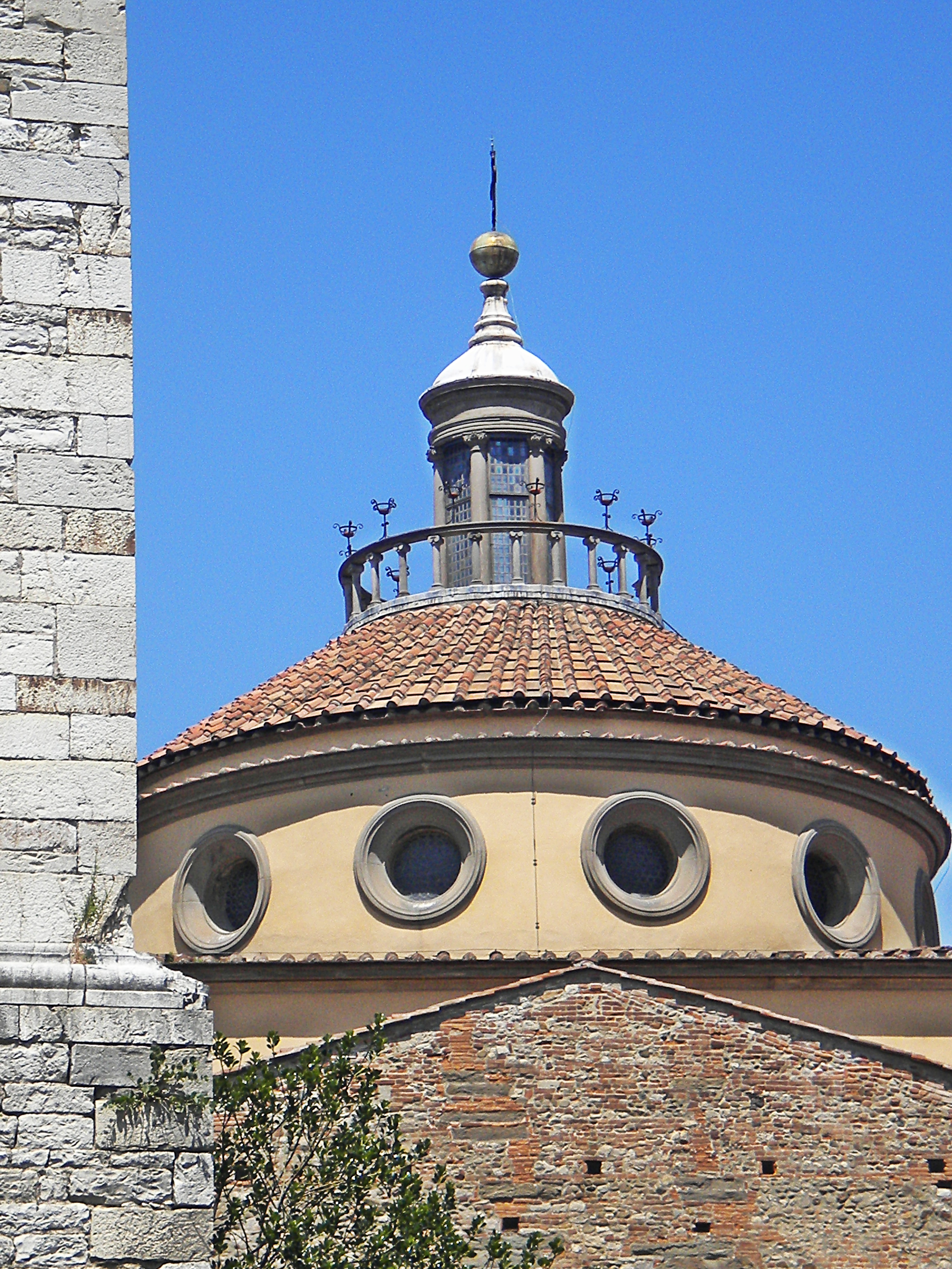 the dome of Santa Maria from the castle